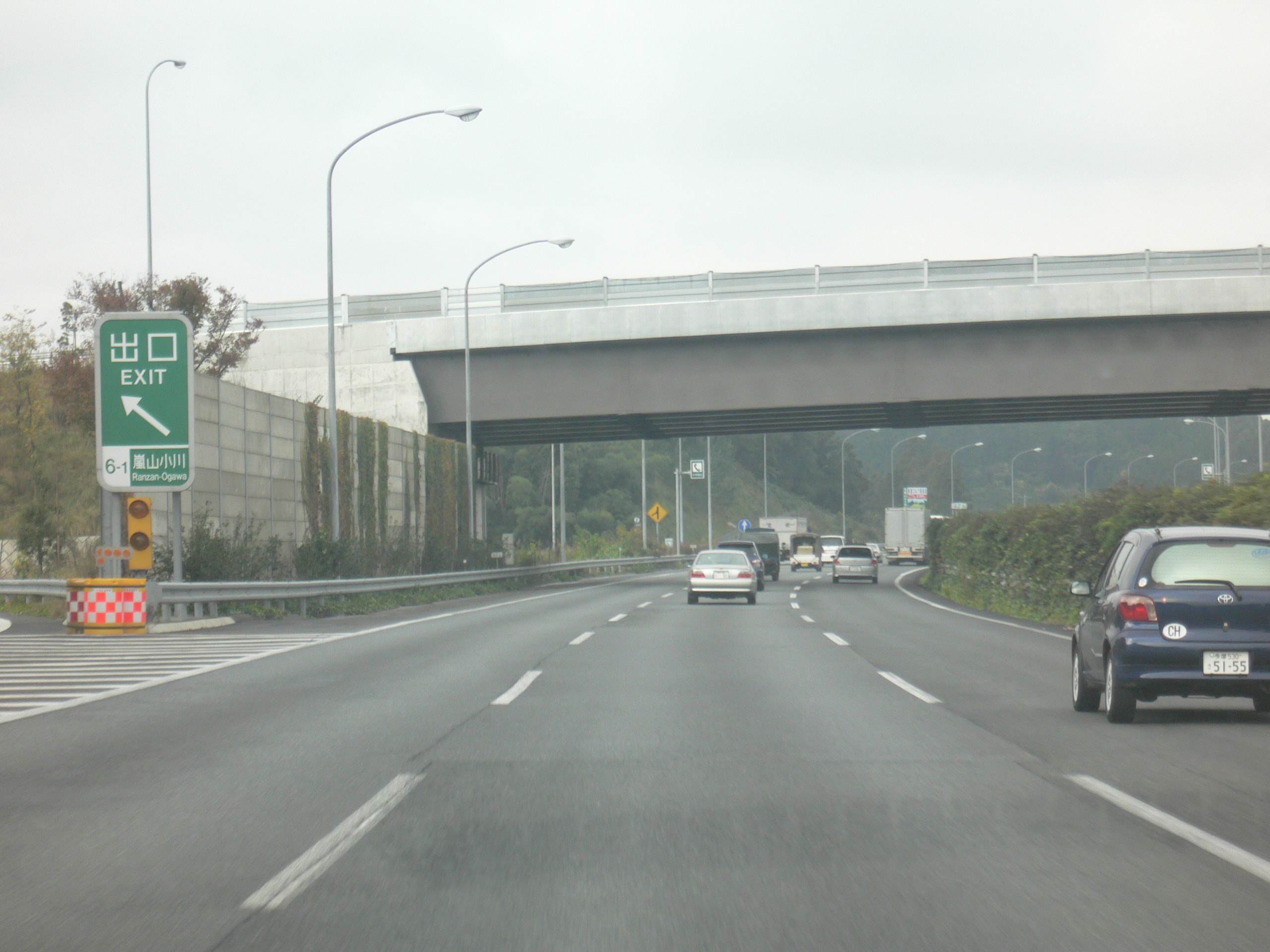 Ranzan-Ogawa Interchange in Ranzan Town, Saitama Prefecture, Japan